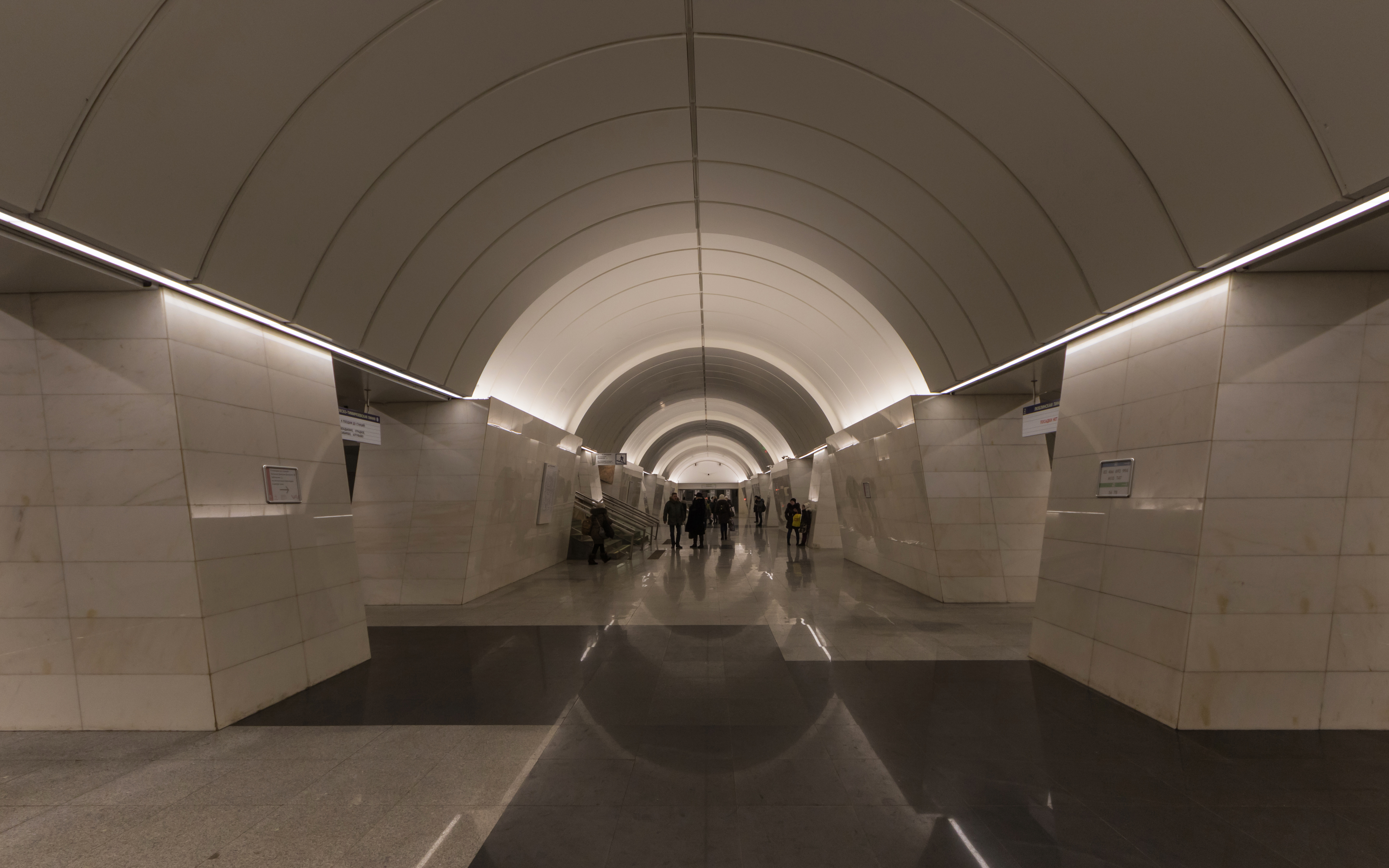 Petrovsko-Razumovskaya metro station (eastern platform hall) in Moscow, Russia